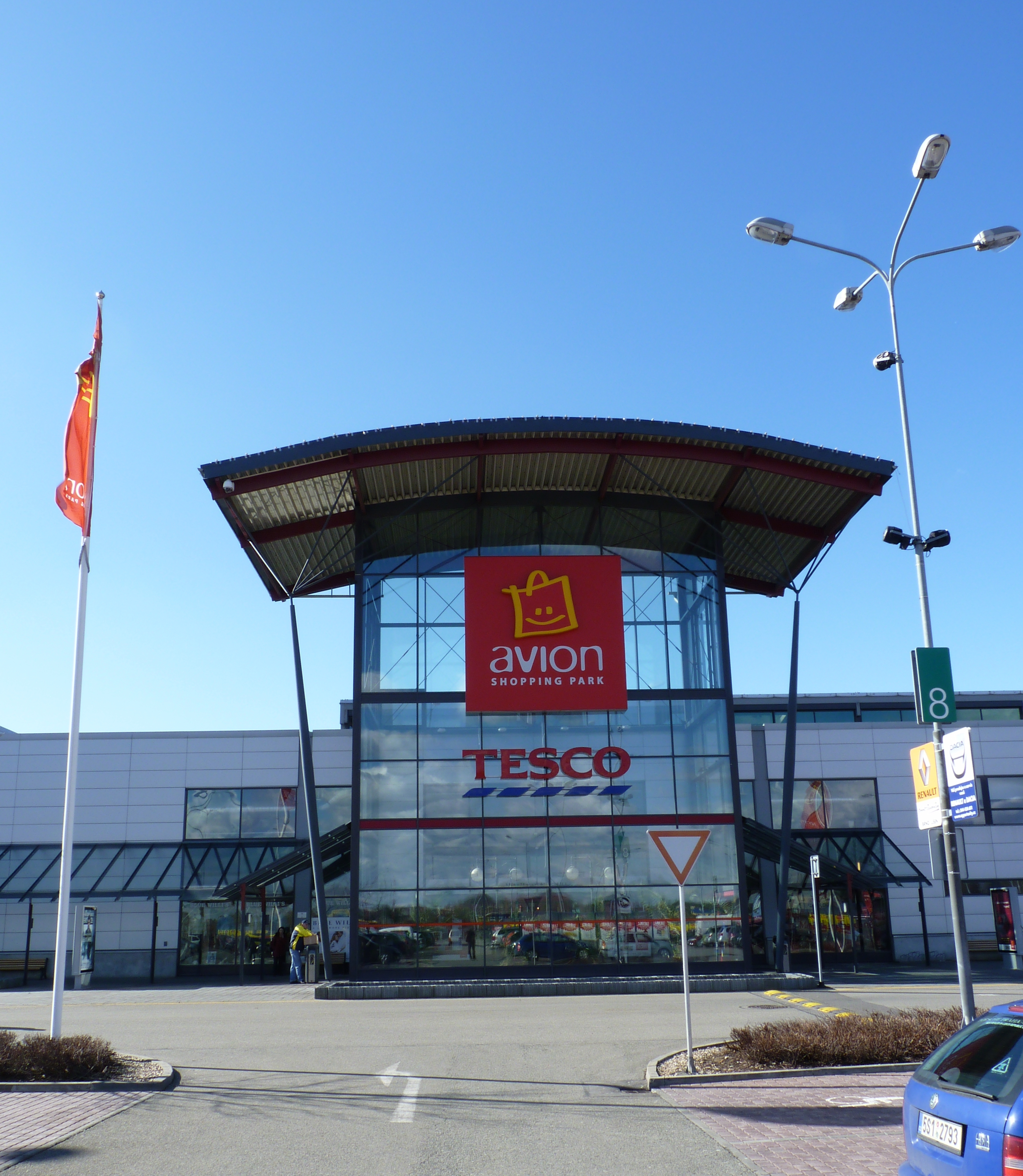 Avion Shopping Park Brno in Brno-South, main entrance, South Moravian Region, Czech Republic